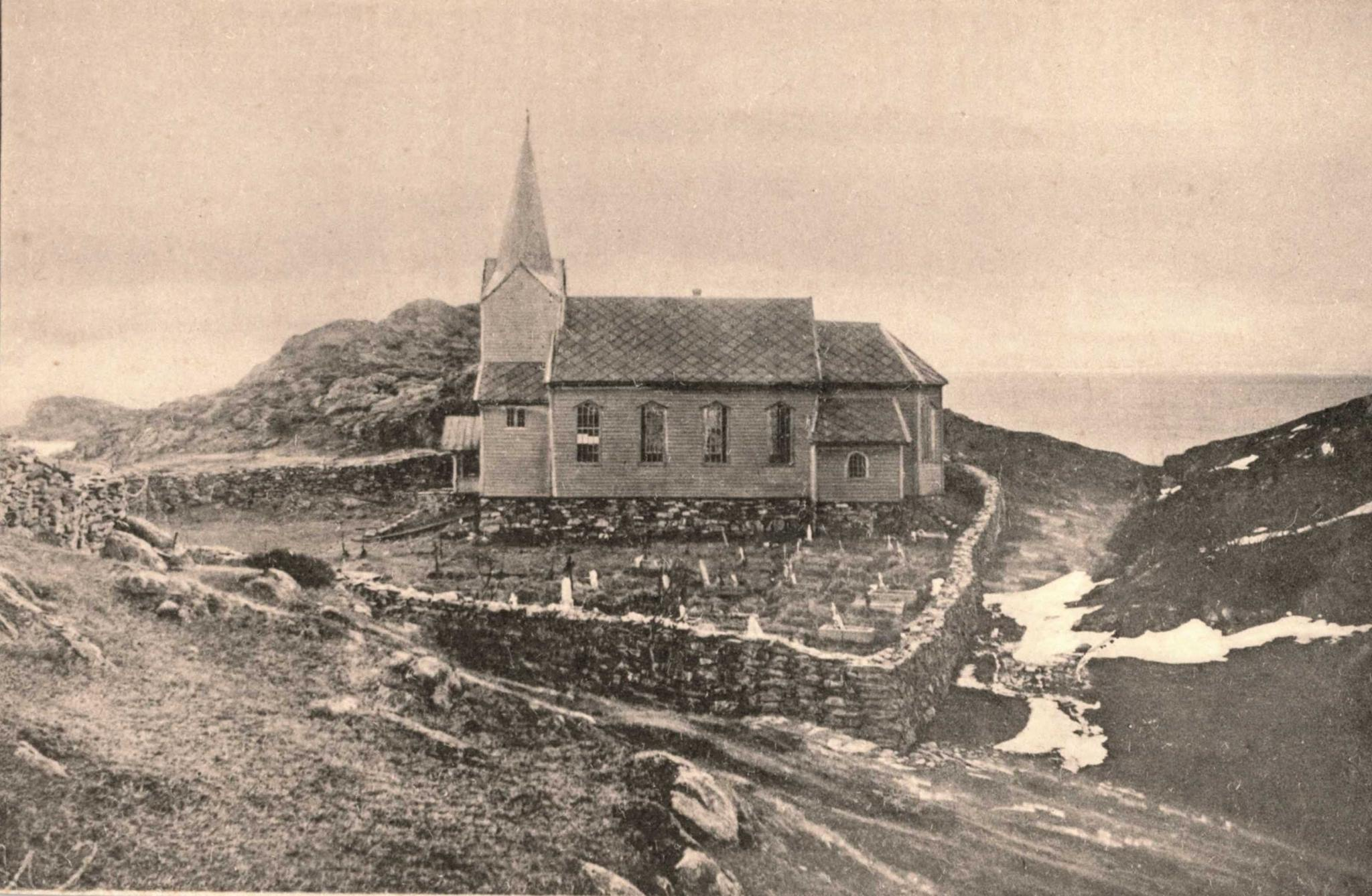 Hjelme gamle kirke fra 1875 i Øygarden kommune, Hordaland fylke.